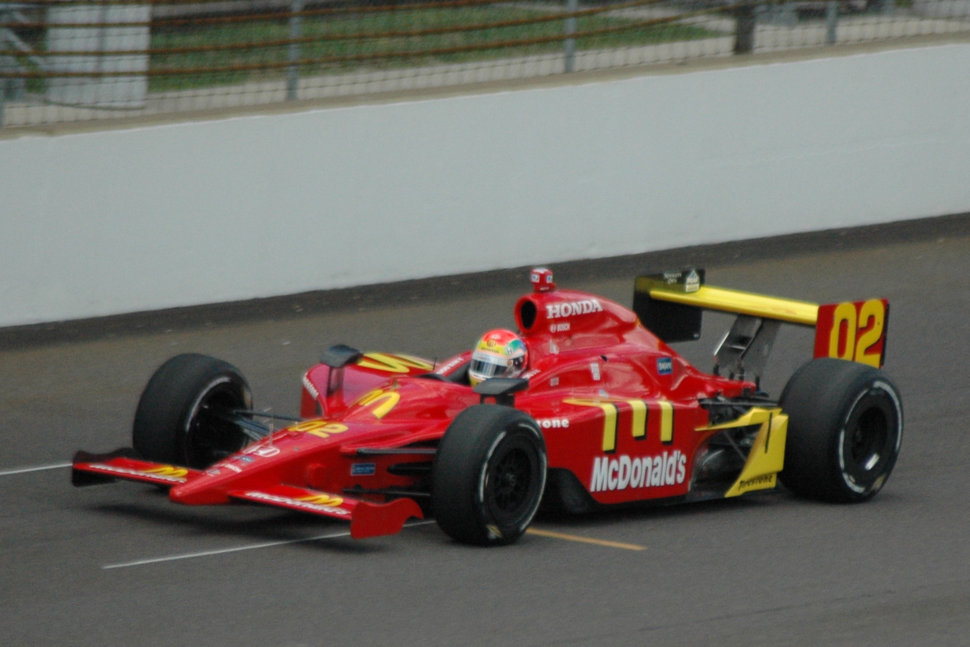 Justin Wilson practicing for the 2008 Indianapolis 500